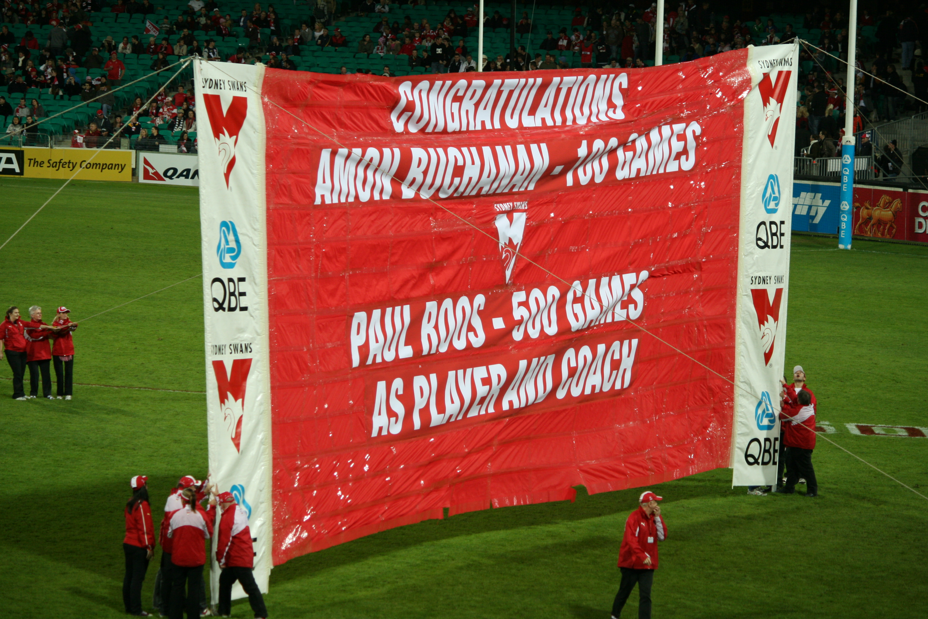 A Sydney Swans banner honouring Amon Buchanon's 100th game as a player Paul Roos' 500th game as player and coach.